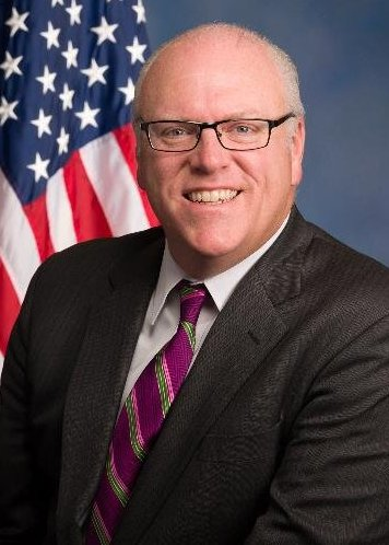 Joe Crowley, member of the United States House of Representatives.